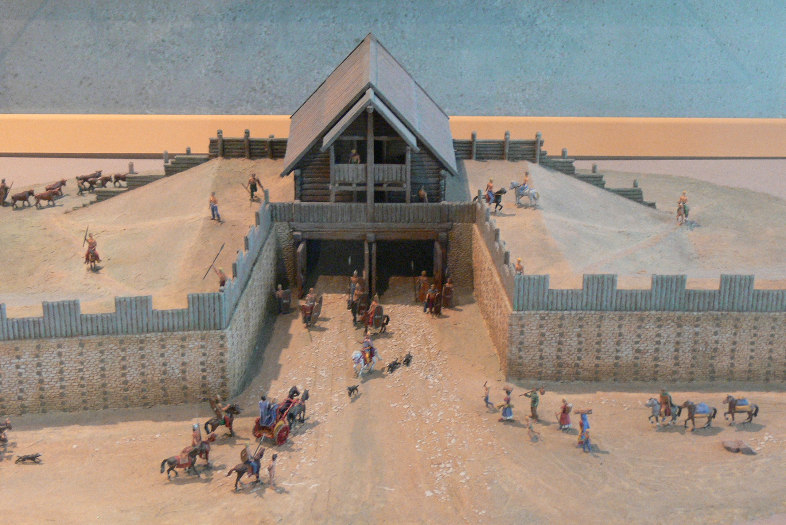 Celtic Museum Manching ( Bavaria ). Reconstruction of the eastern gate of the oppidum of Manching ( 130 BC ).